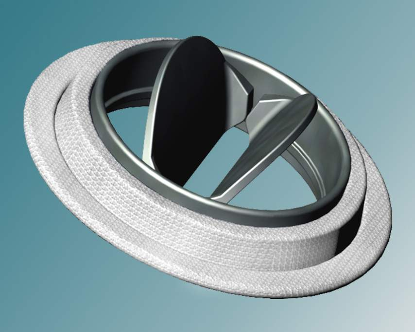 Bileafter prosthetic heart valve